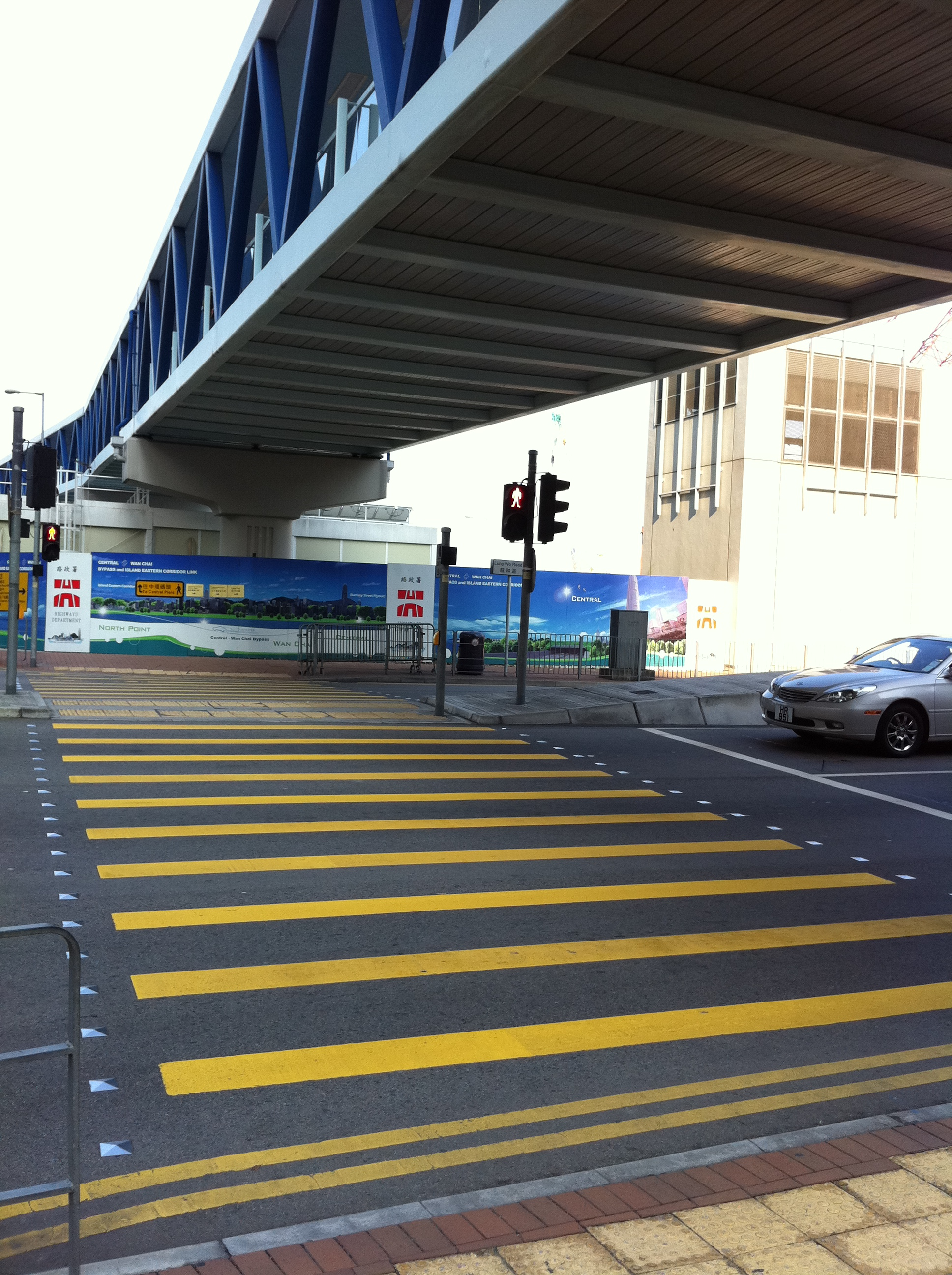 Central, Hong